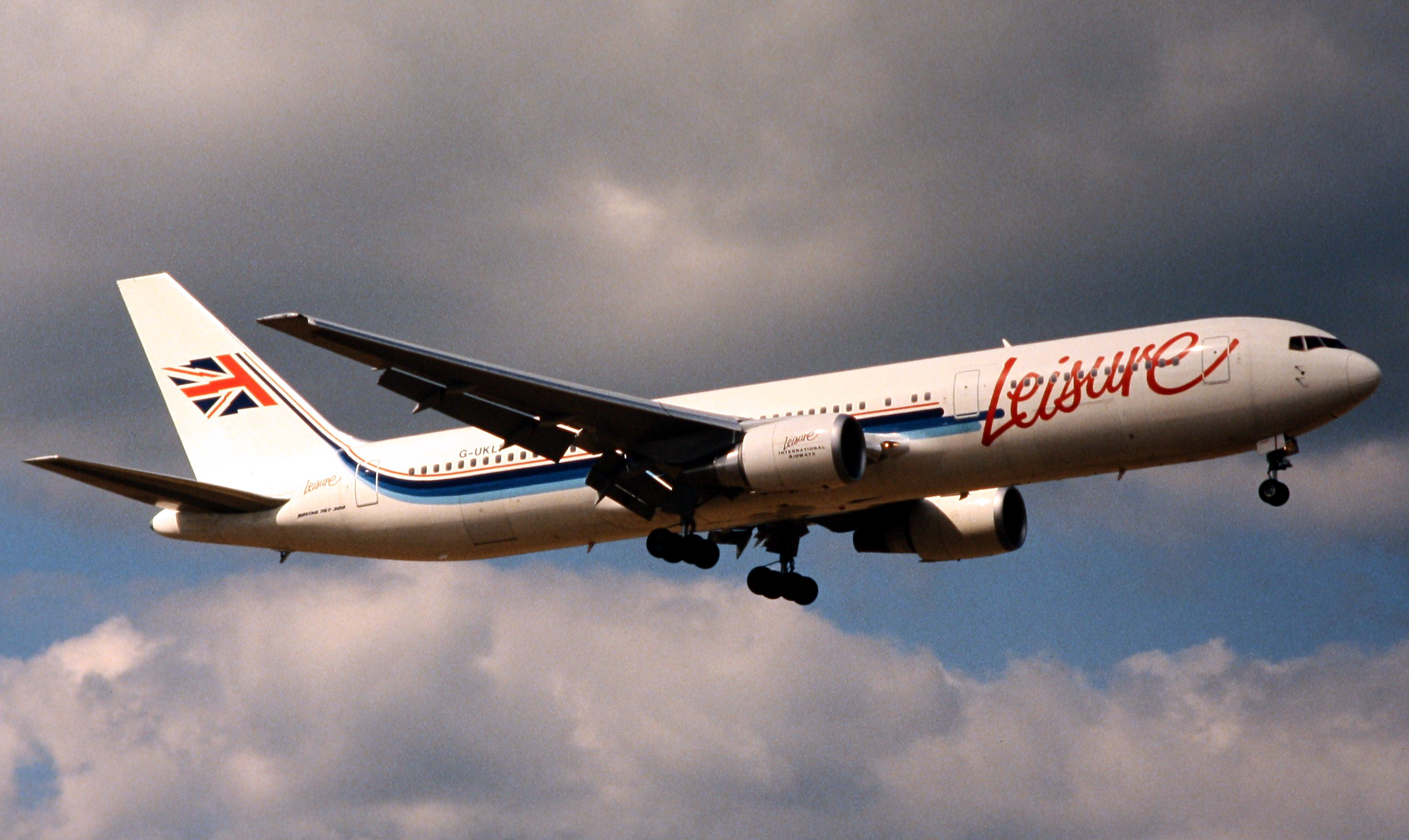 take off